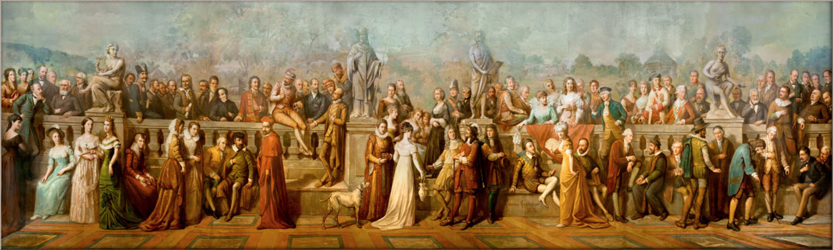 « Livre d’Or », 9 m long painting by Antoine Fontaine (1830-1896). It depicts 91 famous visitors of the town of Spa (Belgium), along with the "pavillon des sources de la Sauvenière", the "pavillon de la Géronstère", the 1863 Bathing House, the Leopold II-gallery and the "Pouhon Pierre-le-Grand" (where the painting itself is housed since 1894).